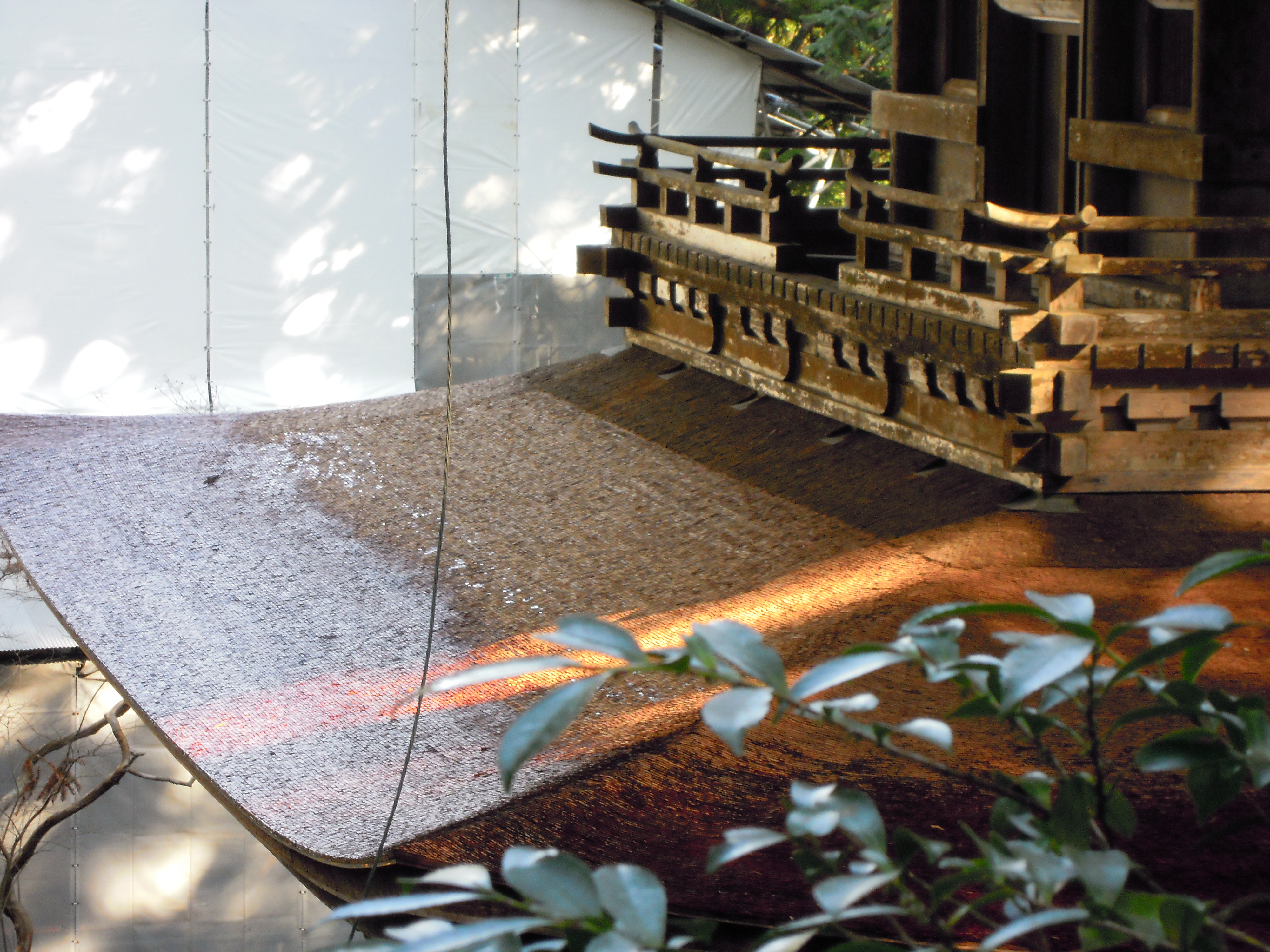 Roof of Three-storied Pagoda covered with new cypress barks